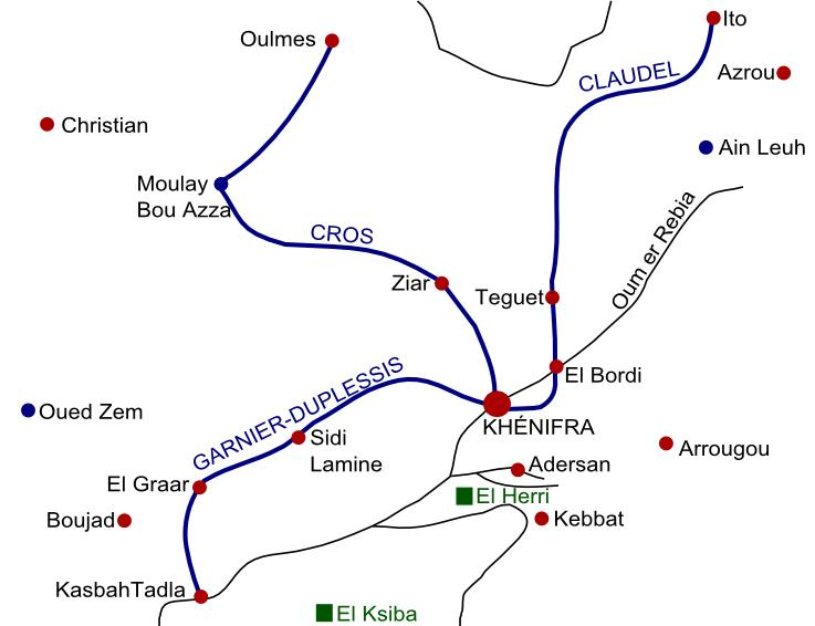 A map showing the approach of the three French columns which took Khenifra from the Berber tribes in June 1914